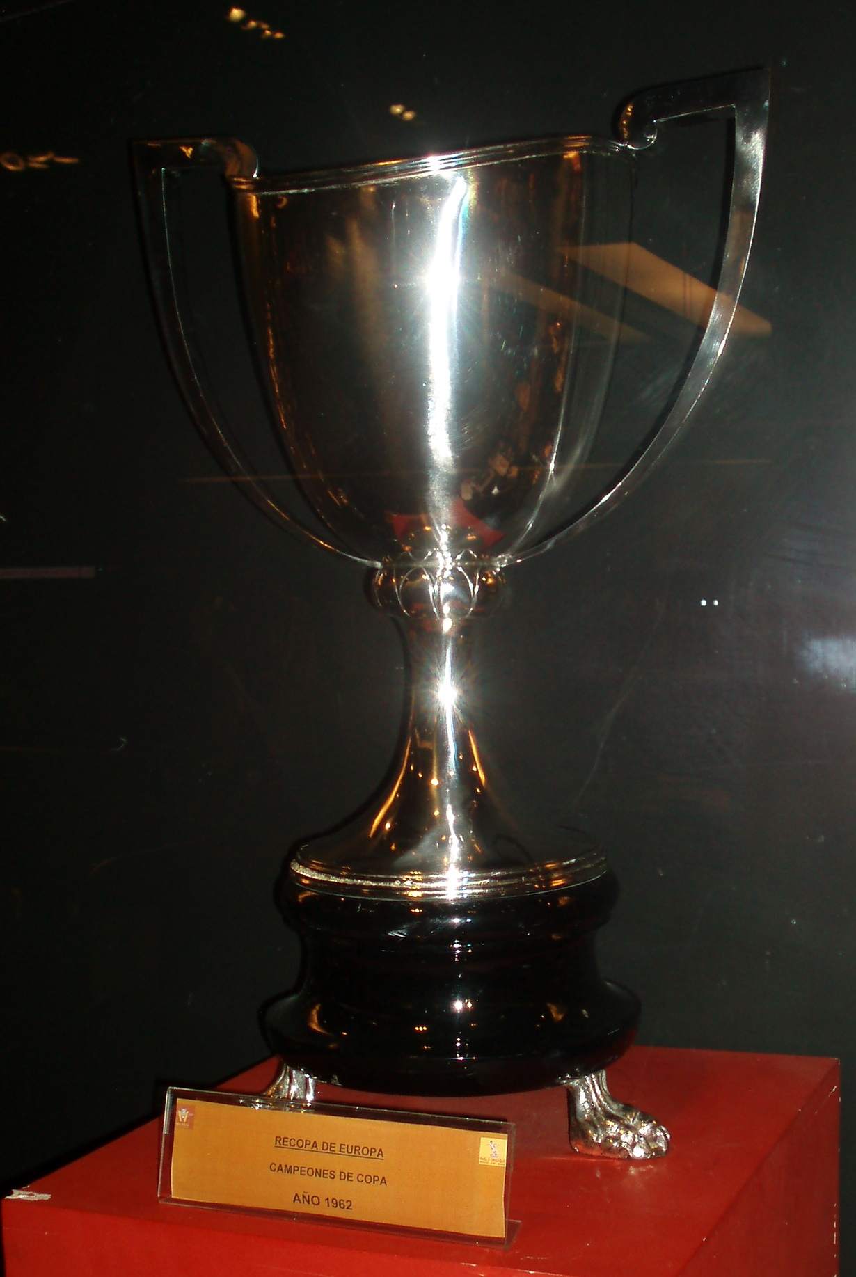 1962 European Cup Winners Cup.